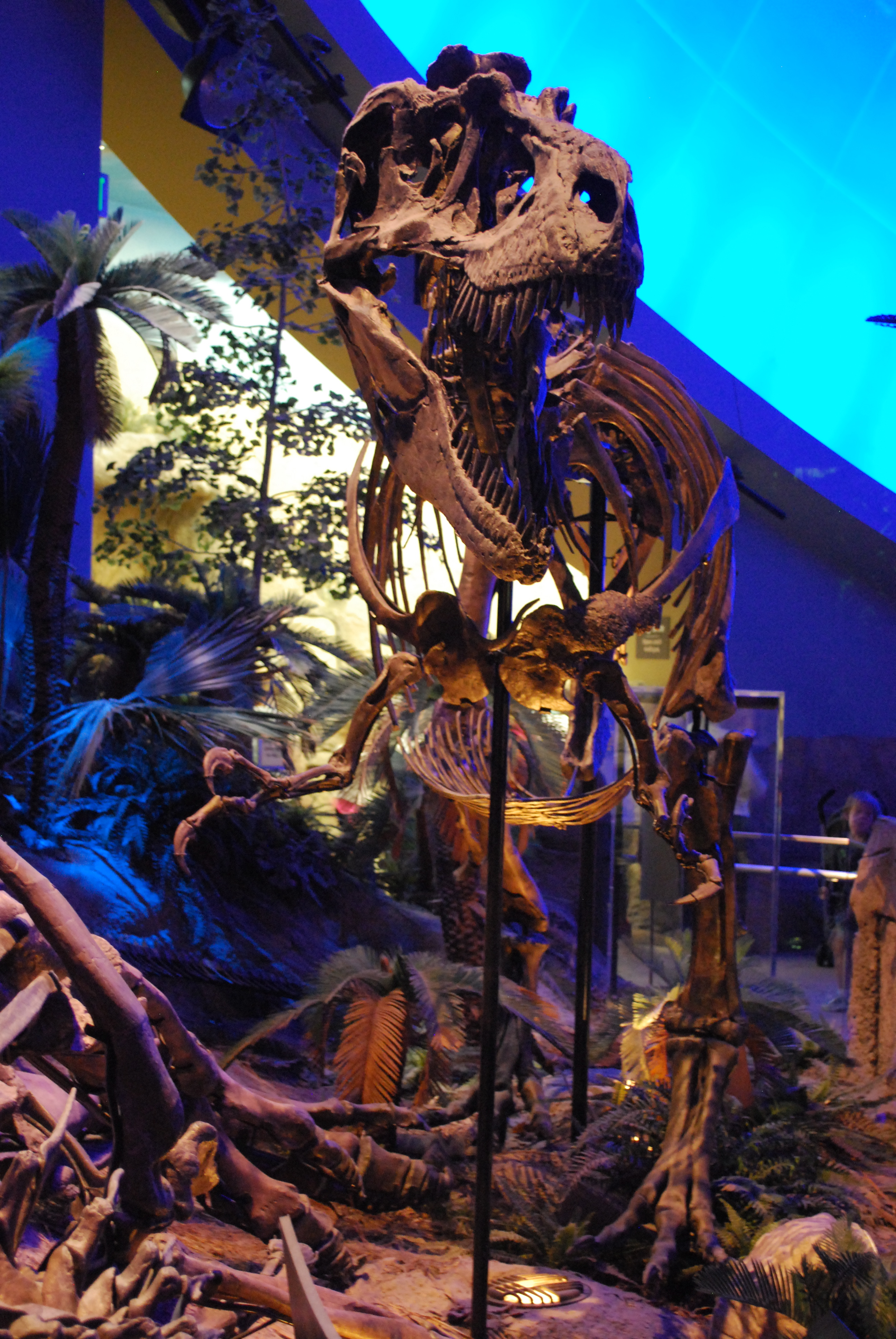 Gorgosaurus mount at the Children's Museum of Indianapolis.